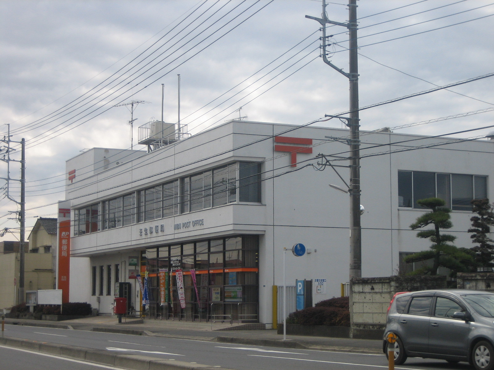 Mibu post office in Tochigi, Japan